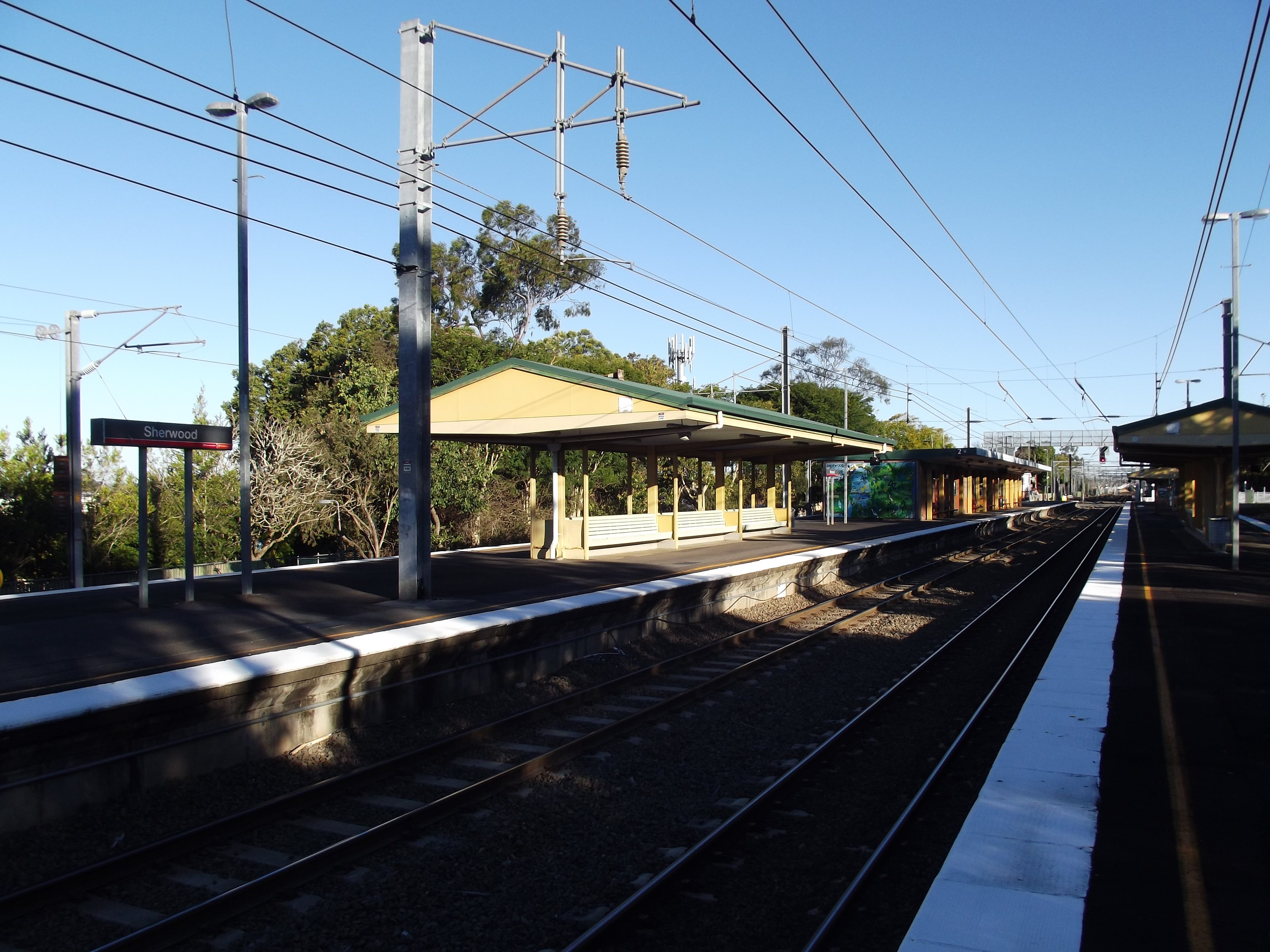 Sherwood station, on the Richlands/Ipswich line.